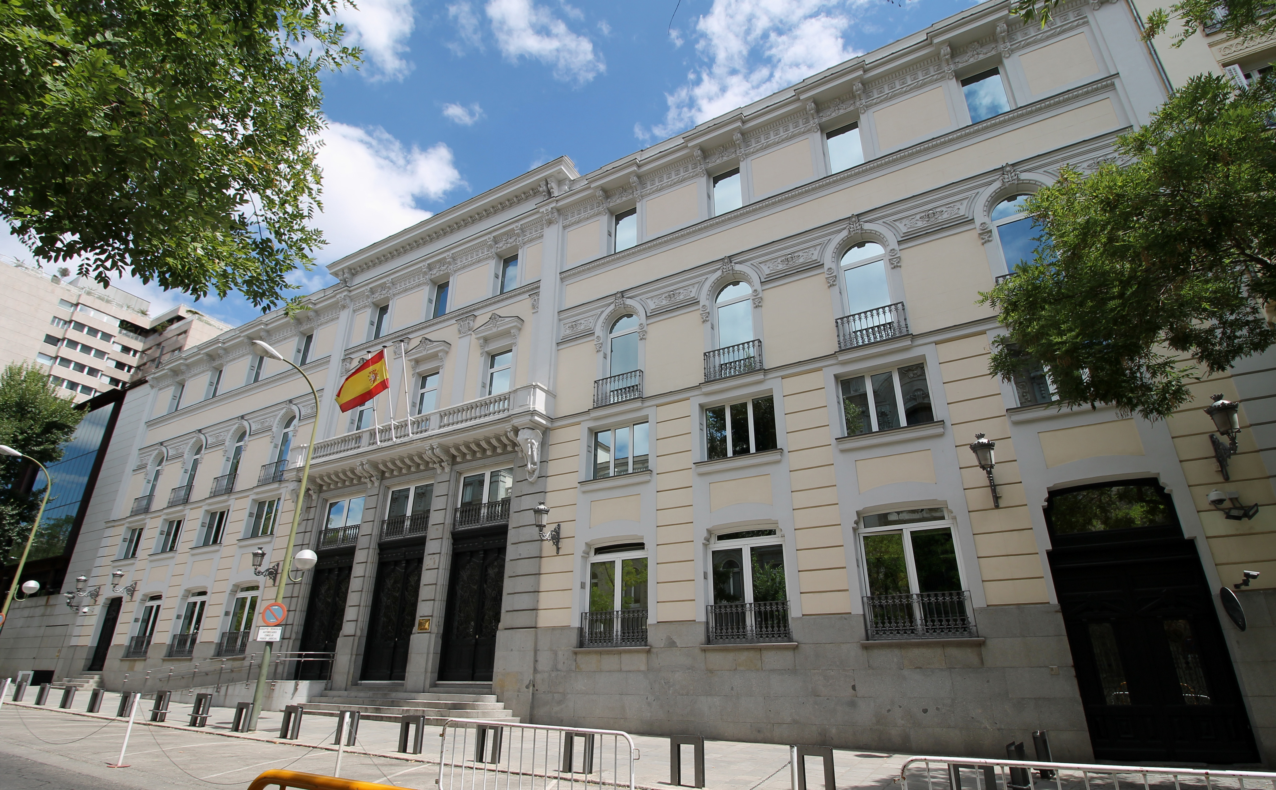 Home of the General Council of the Judiciary of Spain, at 8th Calle del Marqués de la Ensenada (street) in Madrid. Building was designed by José Grases Riera and built in 1902 as a theater.